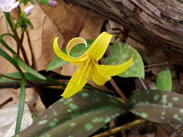 Erythronium americanum (trout lily) in bloom. Indiana Dunes National Lakeshore.